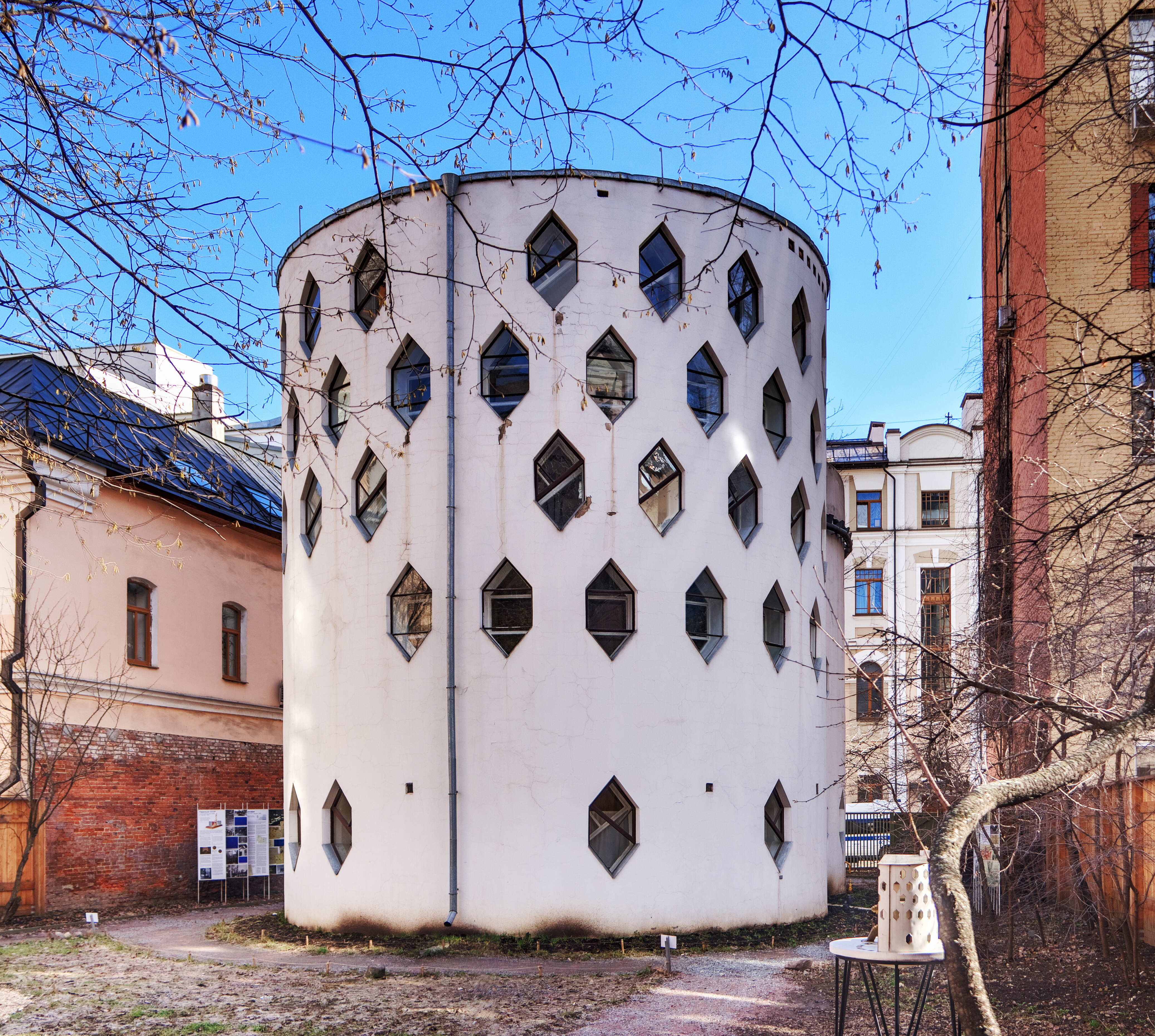 Experimental Melnikov House, Krivoarbatsky Lane 10, Moscow